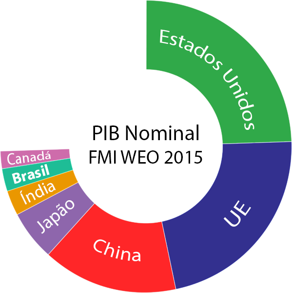 PIB_Nominal_FMI_WEO_2015.png